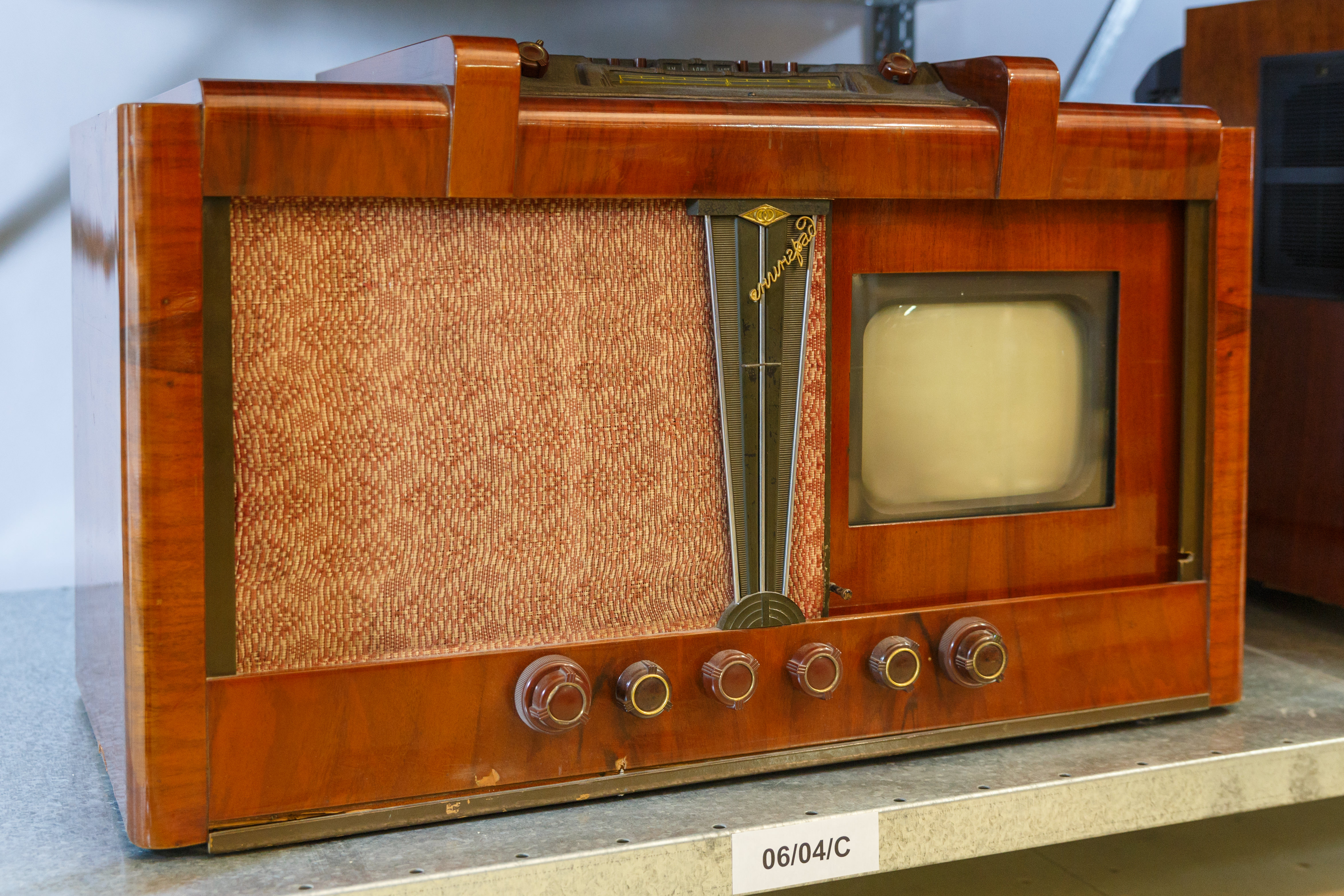 The Leningrad T-2 (Ленинград Т-2) TV set was built simultaneously in Leningrad at Kozitsky Plant, and in East Germany at Sachsenwerke Radeberg, since 1949.